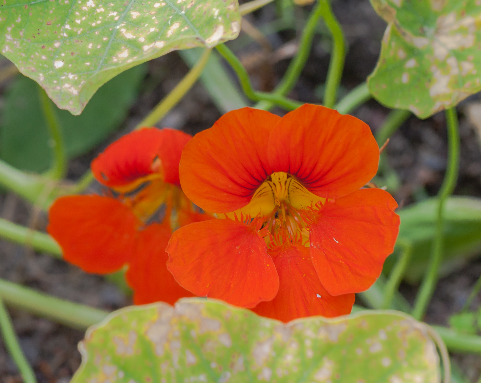 Garden nasturtium (Tropaeolum majus), center of Tallinn, Estonia